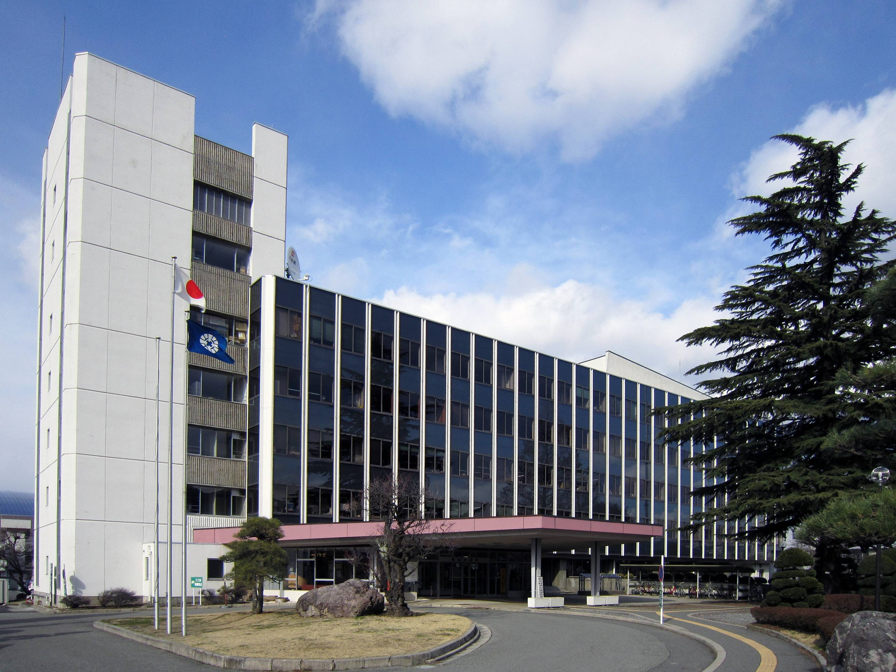 Shiojiri city office.